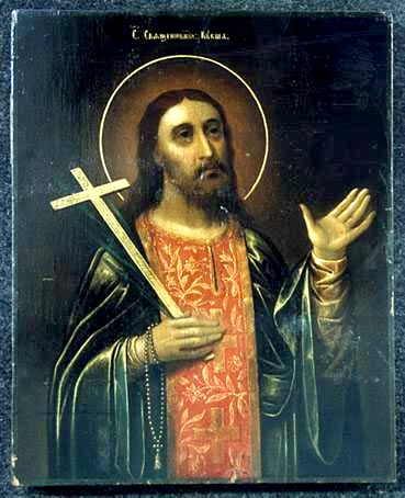 Saint Venerable Hieromartyr Kuksha of the Kiev Caves. Icon.